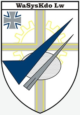 Coat of arms of the German Air Force Weapon System Command